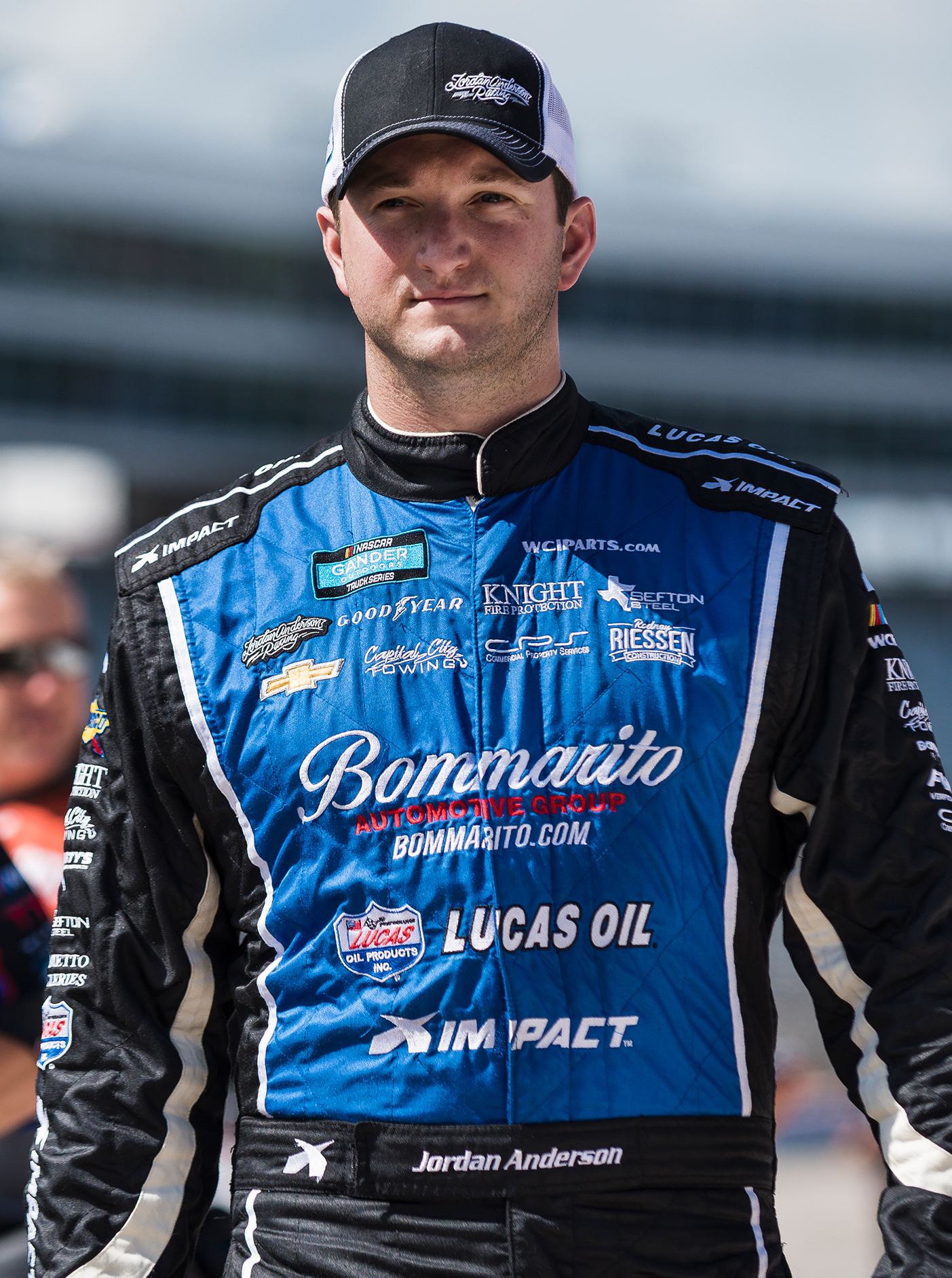 Jordan Anderson walks the grid at the Texas Motor Speedway in 2019 before a NASCAR Gander RV & Outdoors Series race